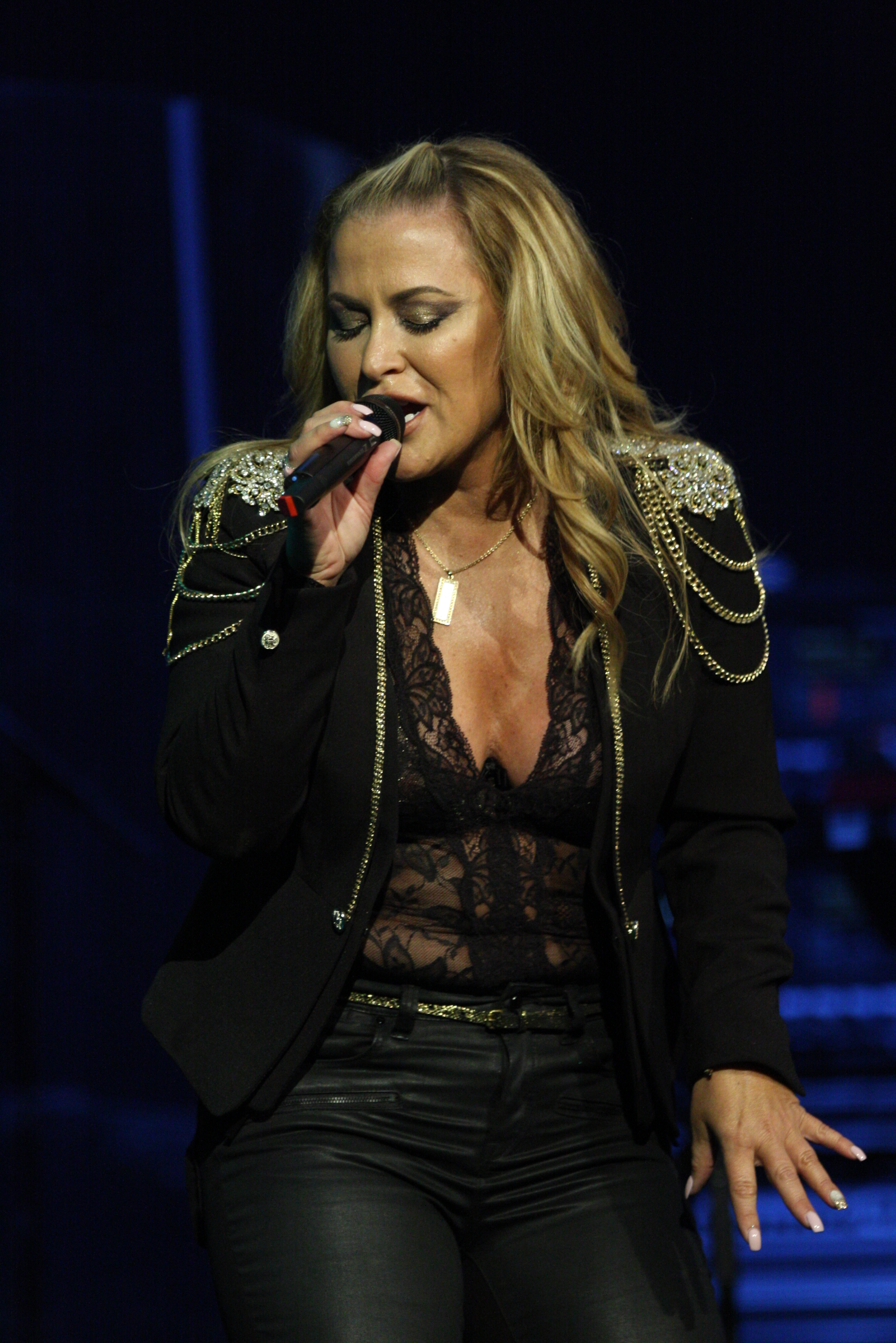 Anastacia performing at The Star Event Center in Sydney